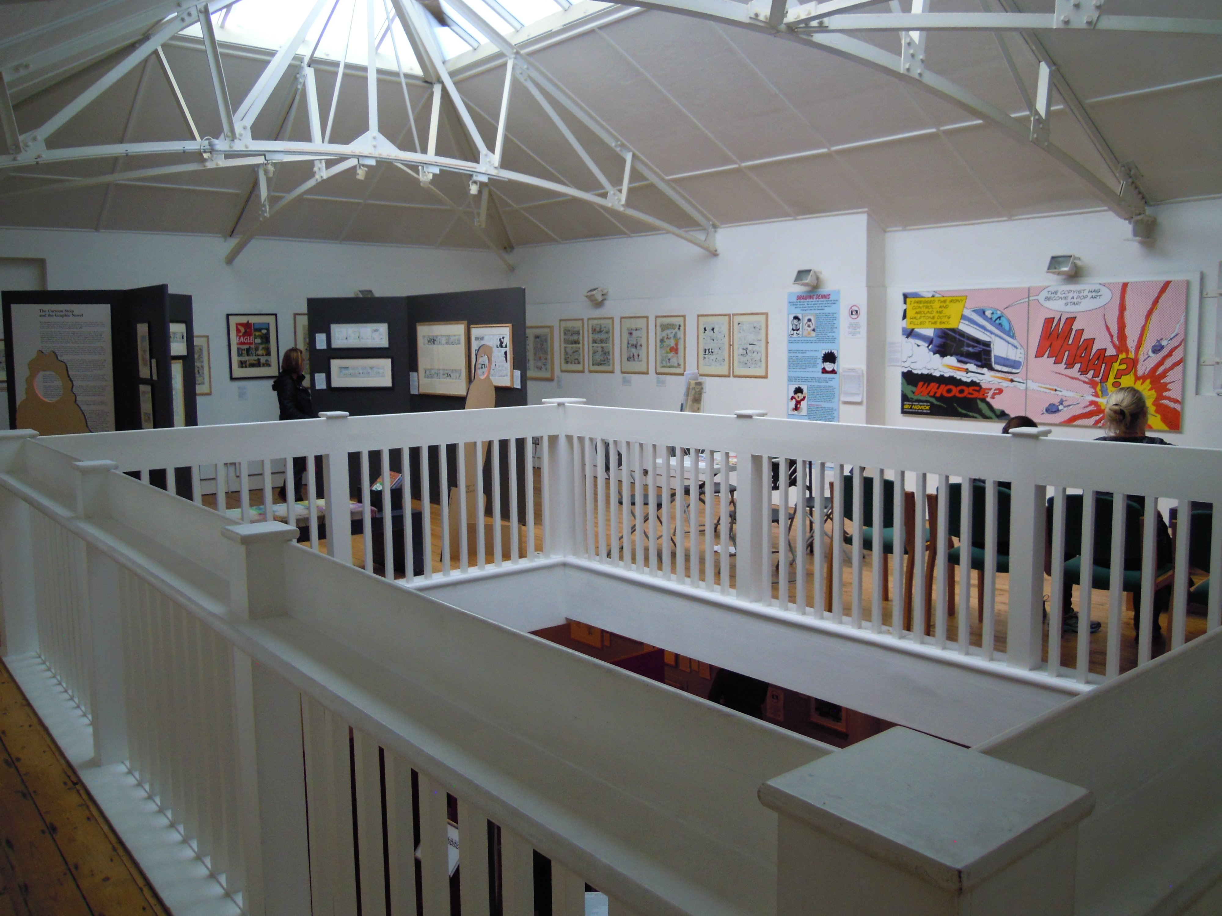 The first floor display area of The Cartoon Museum in May 2014